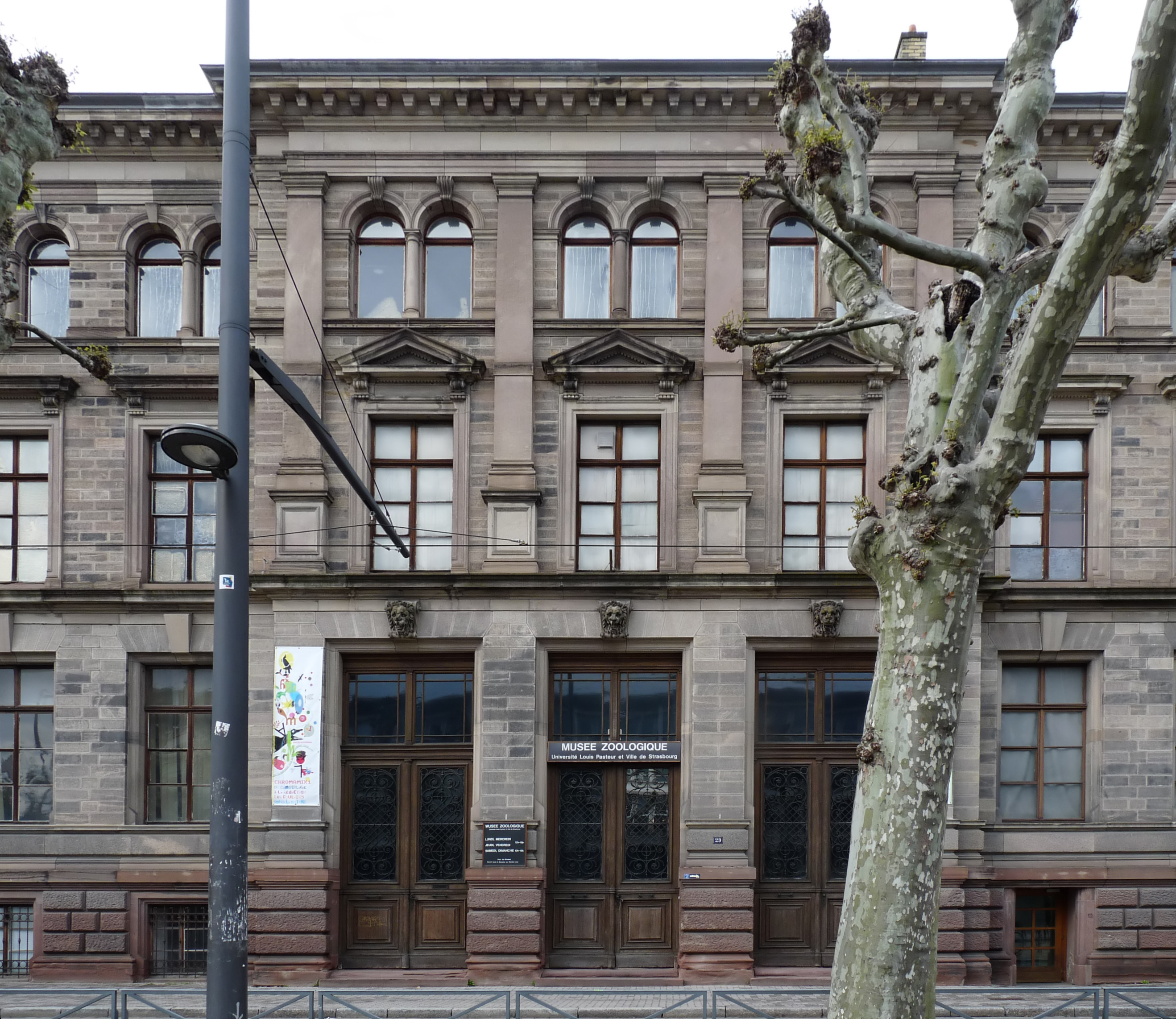 Musée zoologique de Strasbourg